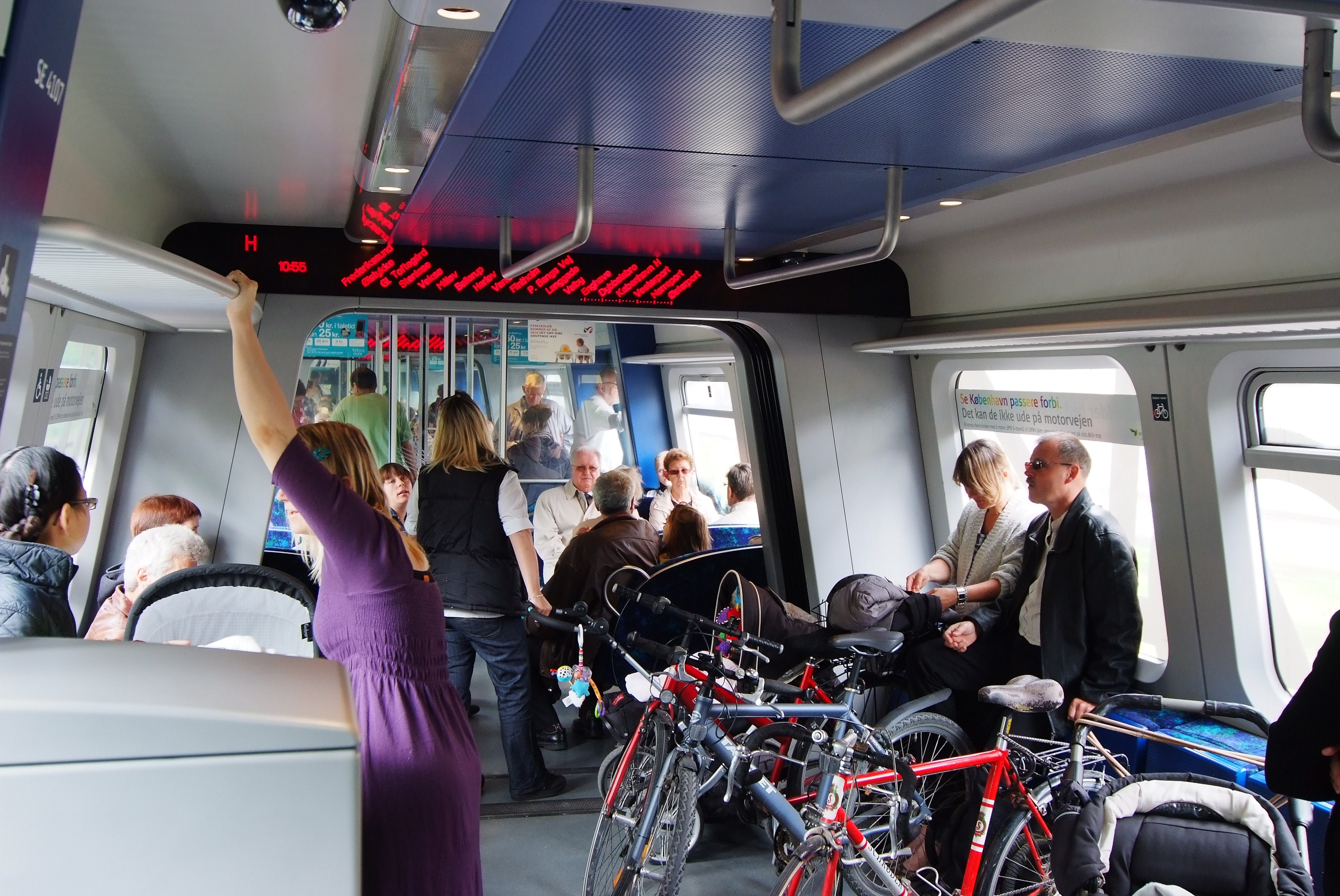 Inside the Copenhagen S-tog